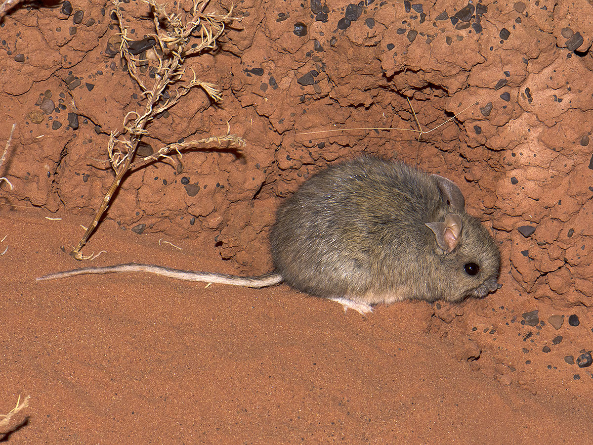 Plains mouse (Pseudomys australis) at Mac Clark (Acacia peuce) Conservation Reserve. Photography by Tim Bawden (18/09/2017)